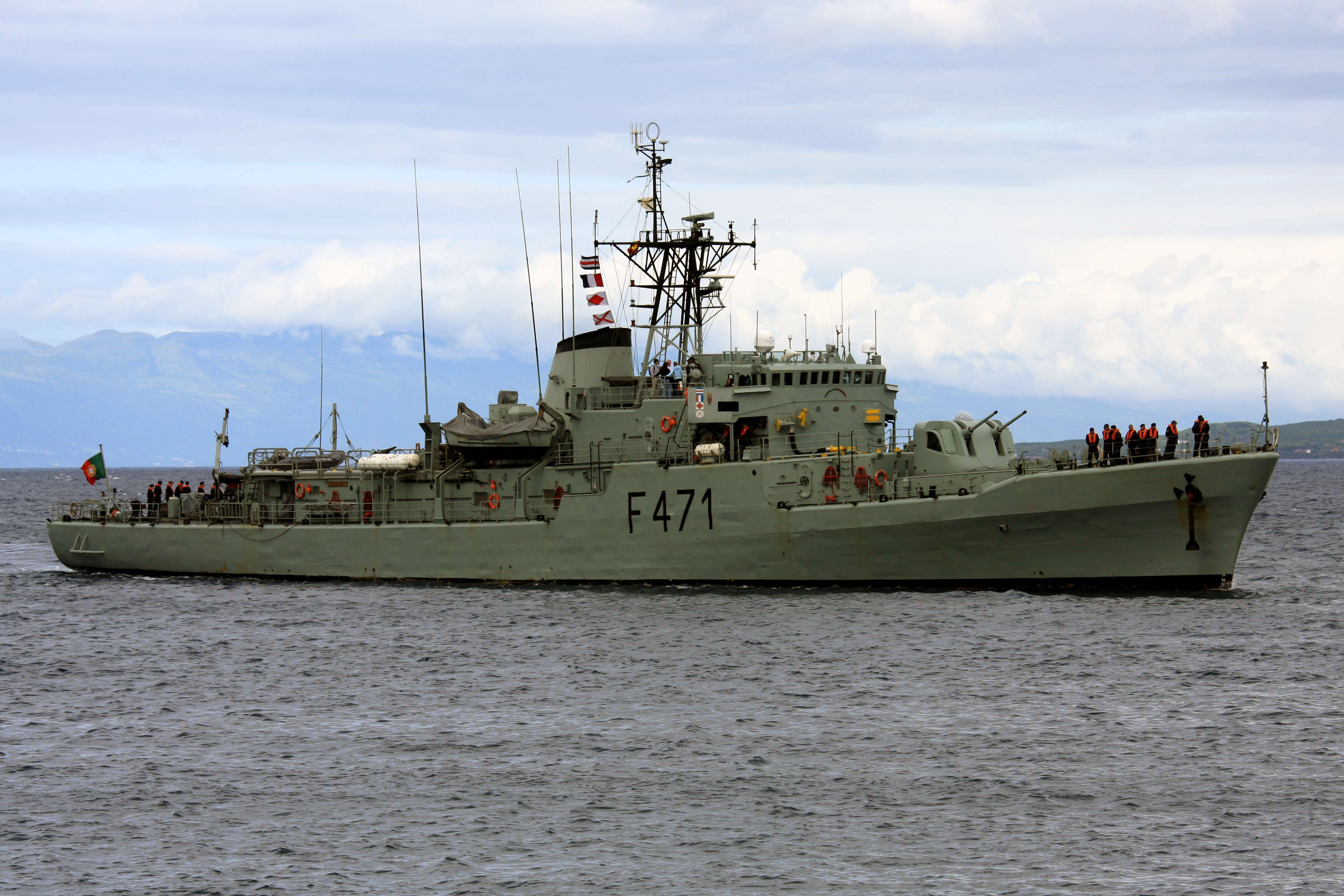 The Die corvette António Enes (F-471) of the Portuguese Navy entering the port of Horta, Azores.